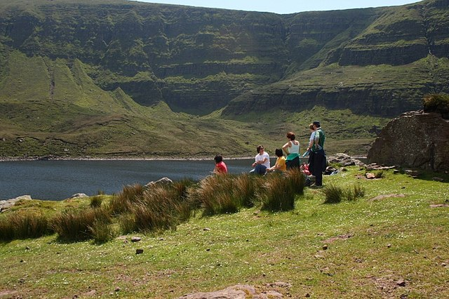 Lough Muskry Picnic at Lough Muskry with Galty cliffs in background.